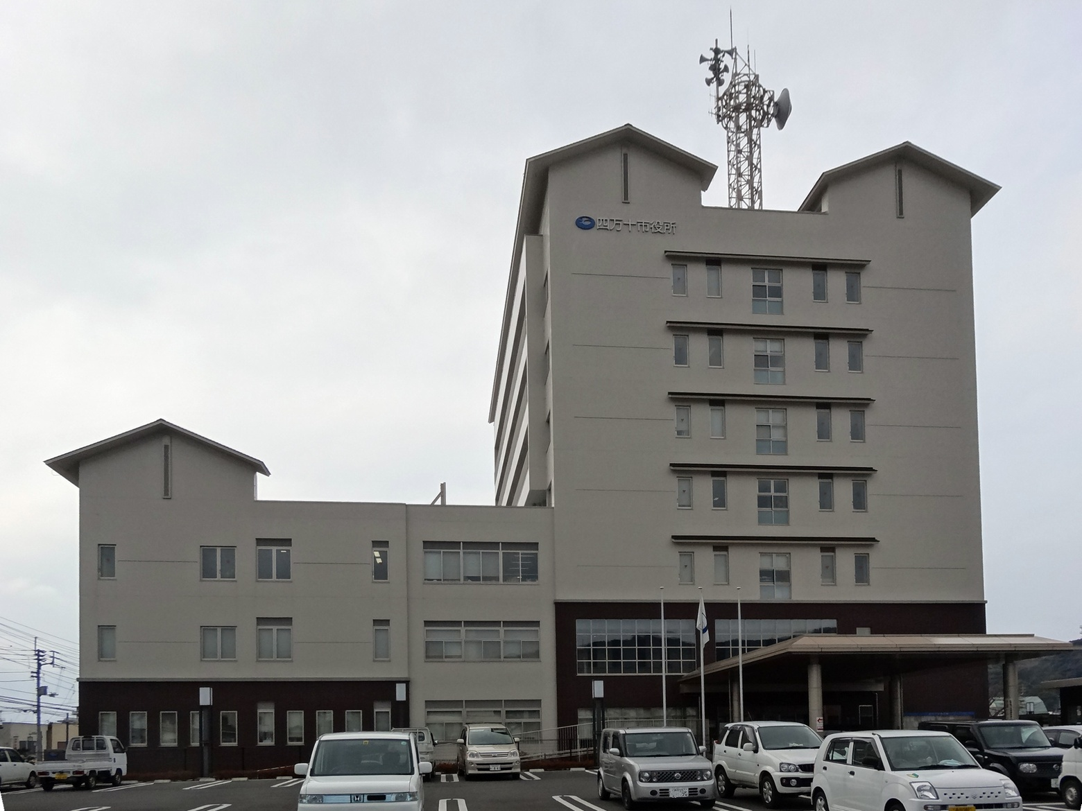 Shimanto City Office (Kochi Prefecture, Japan)